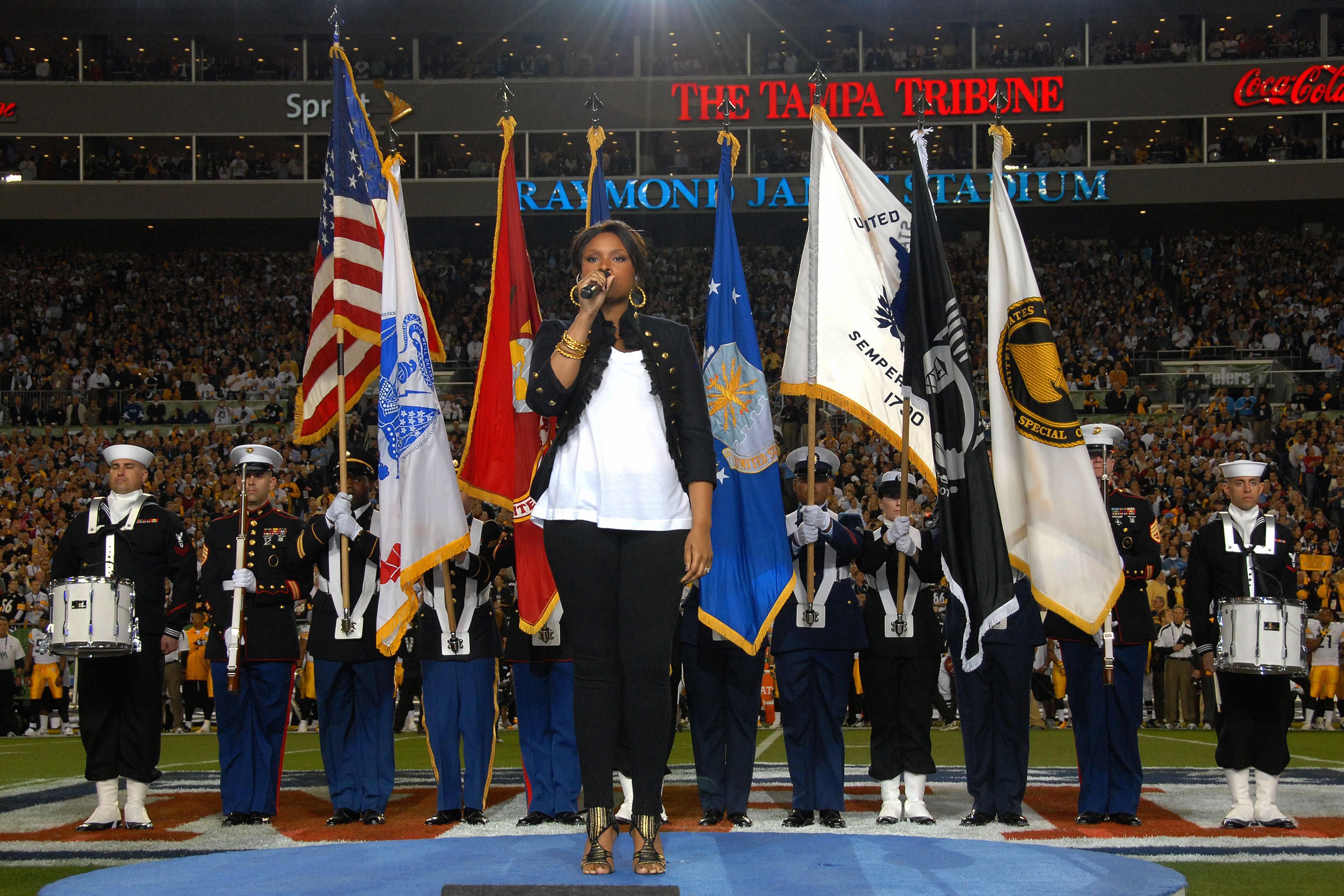 Singer-songwriter Jennifer Hudson sings the national anthem before the start of Super Bowl XLIII, Feb. 1, 2009, at Raymond James Stadium in Tampa, Fla. The Special Operations Command Joint Service Color Guard from MacDill Air Force Base, Fla., presented the colors.